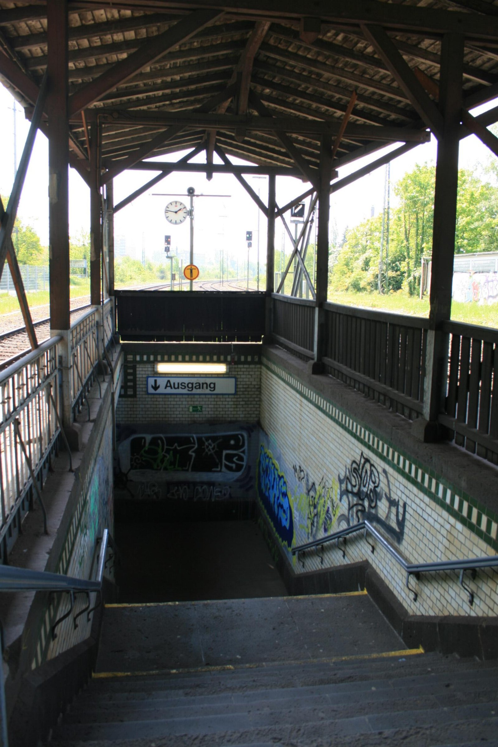 Cultural heritage monument No. K 086 in Mönchengladbach